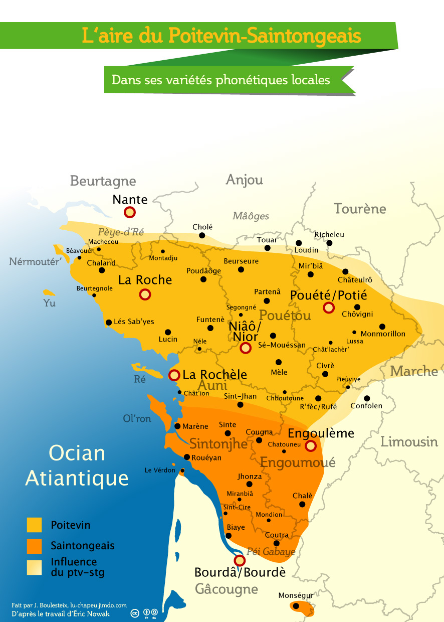 Linguistic area of Poitevin-Saintongeais' dialect, with the city names in local poitevin or saintongeais.